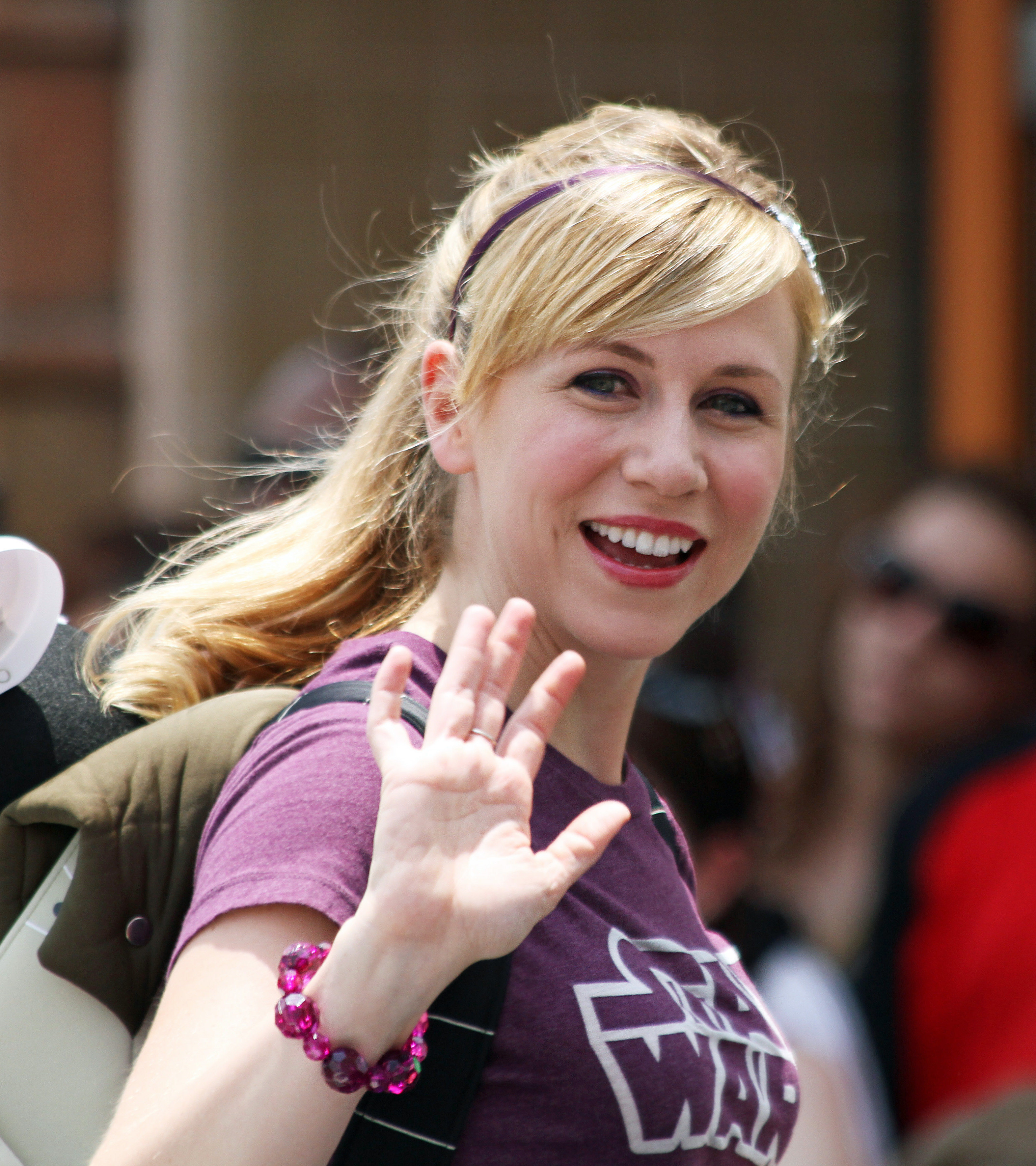 Ashley Eckstein attending Star Wars Weekends 2011 at Walt Disney World, Hollywood Studios, Orlando, Florida.